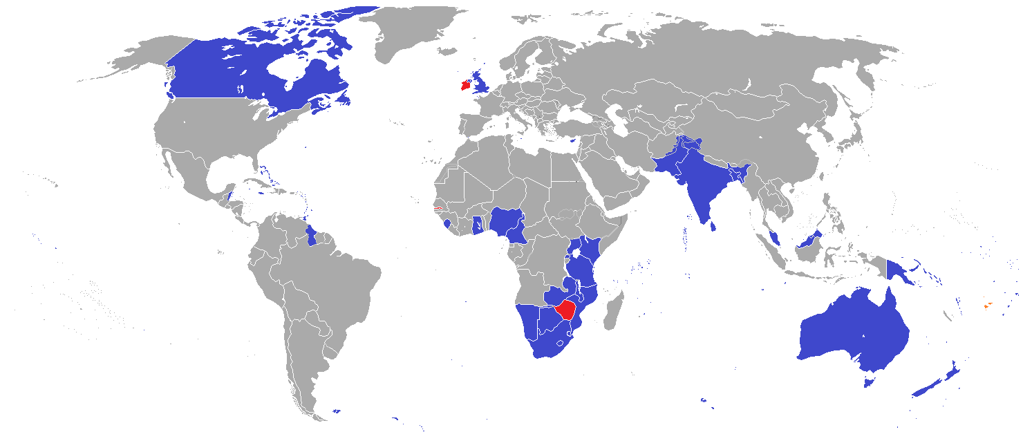 A world map of the member states of the Commonwealth of Nations as of 2 March 2011. Member states Suspended member states Former member states